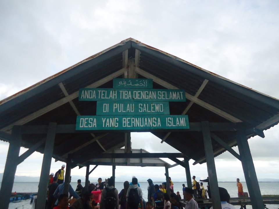 Dermaga Pulau Salemo